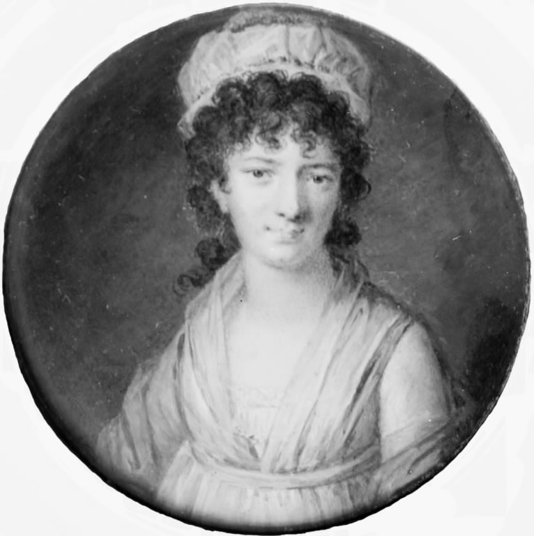 Miniature portrait of Charlotte Schimmelmann, wife of Ernst Schimmelmann and active salonist